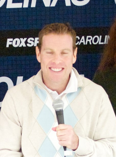 Skate with the Canes 2012 (February 5th) : Tripp Tracy